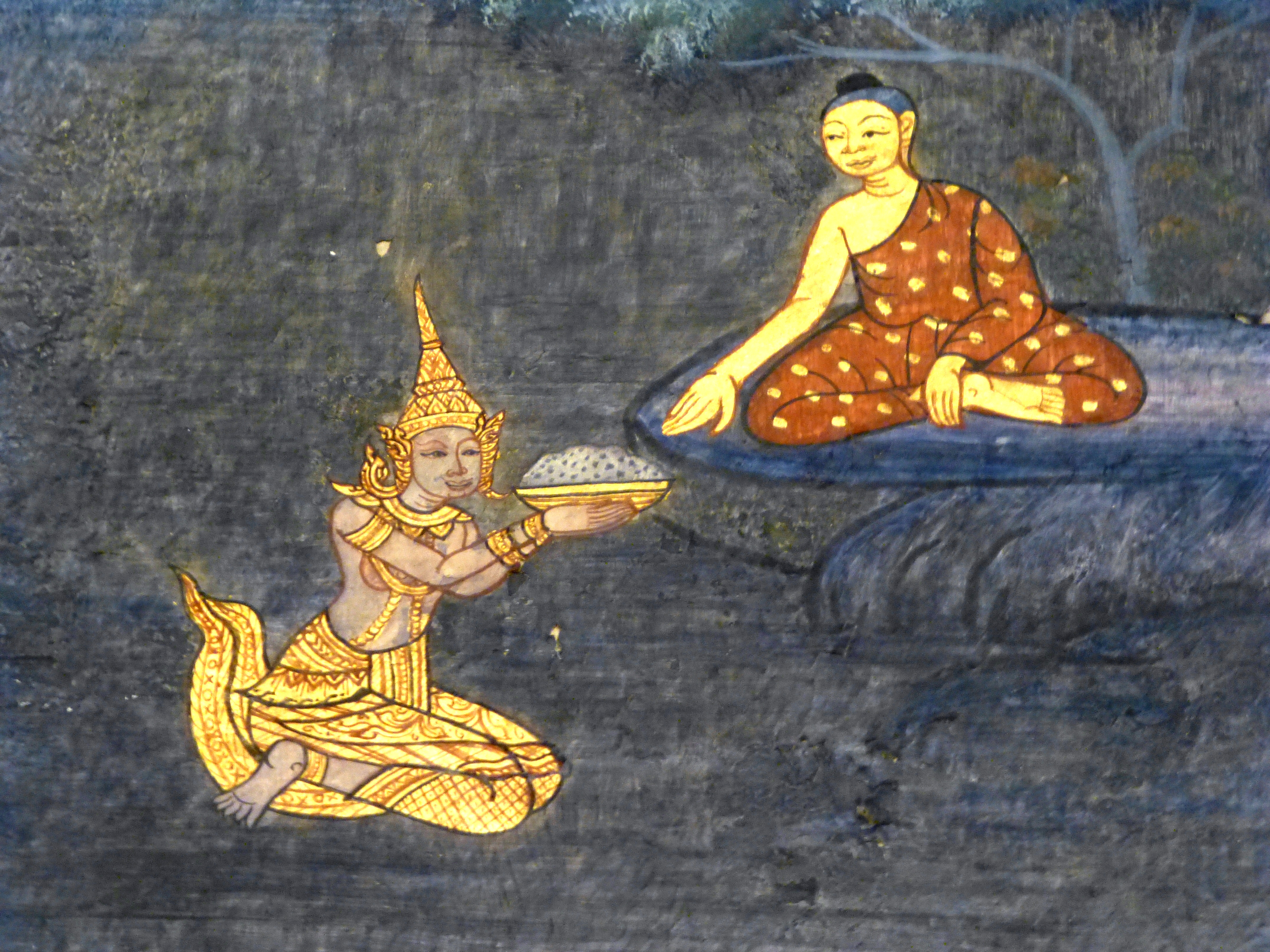 085 Sujata offers Rice, Wat Kasattrathirat, Ayutthaya